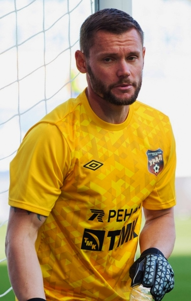 Yuri Zhevnov